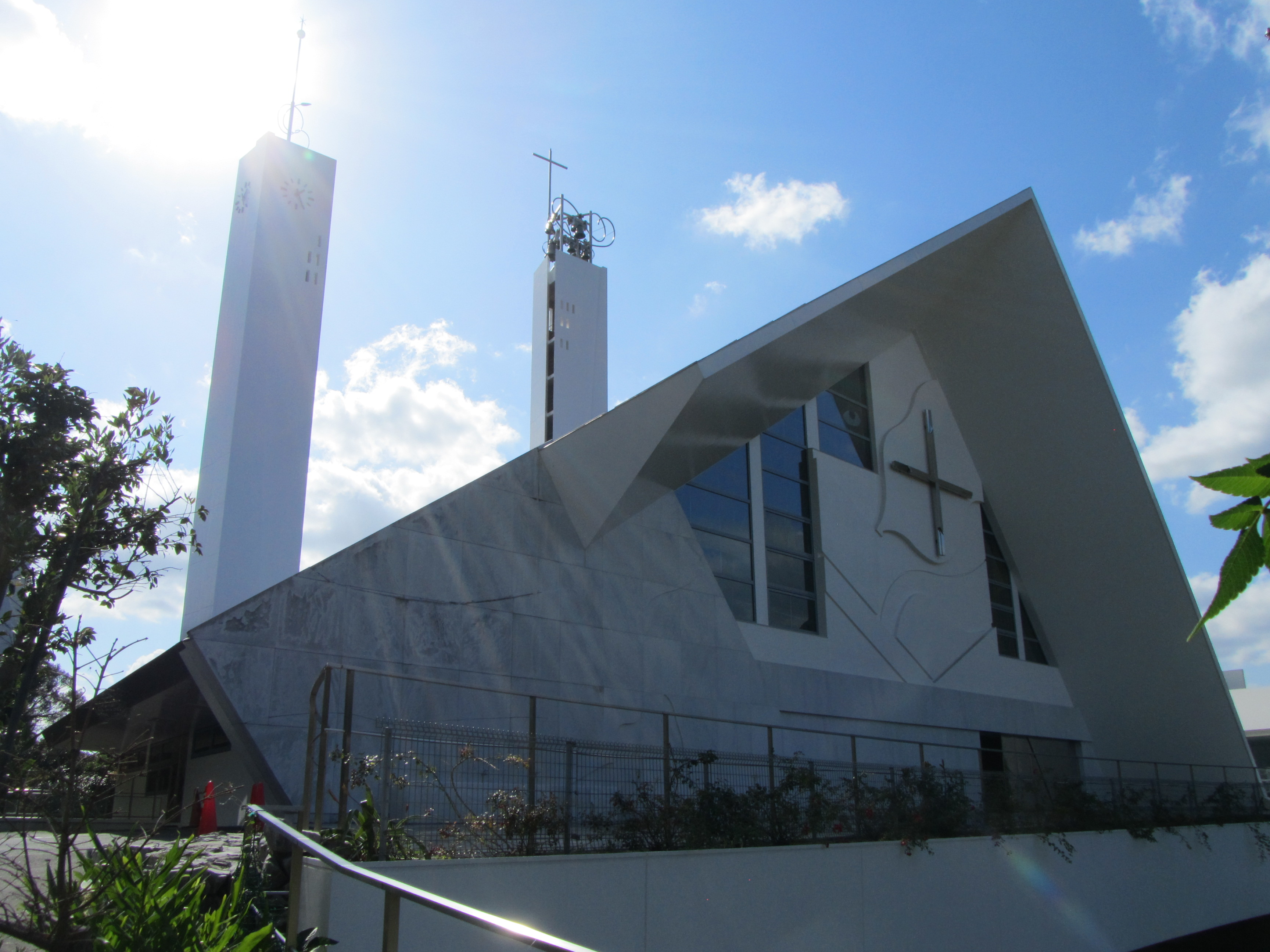 Main façade of St. Francis Xavier Memorial Church. The original building from 1952 was lost to fire in 1991, and was reconstructed in a modern style in 1998.